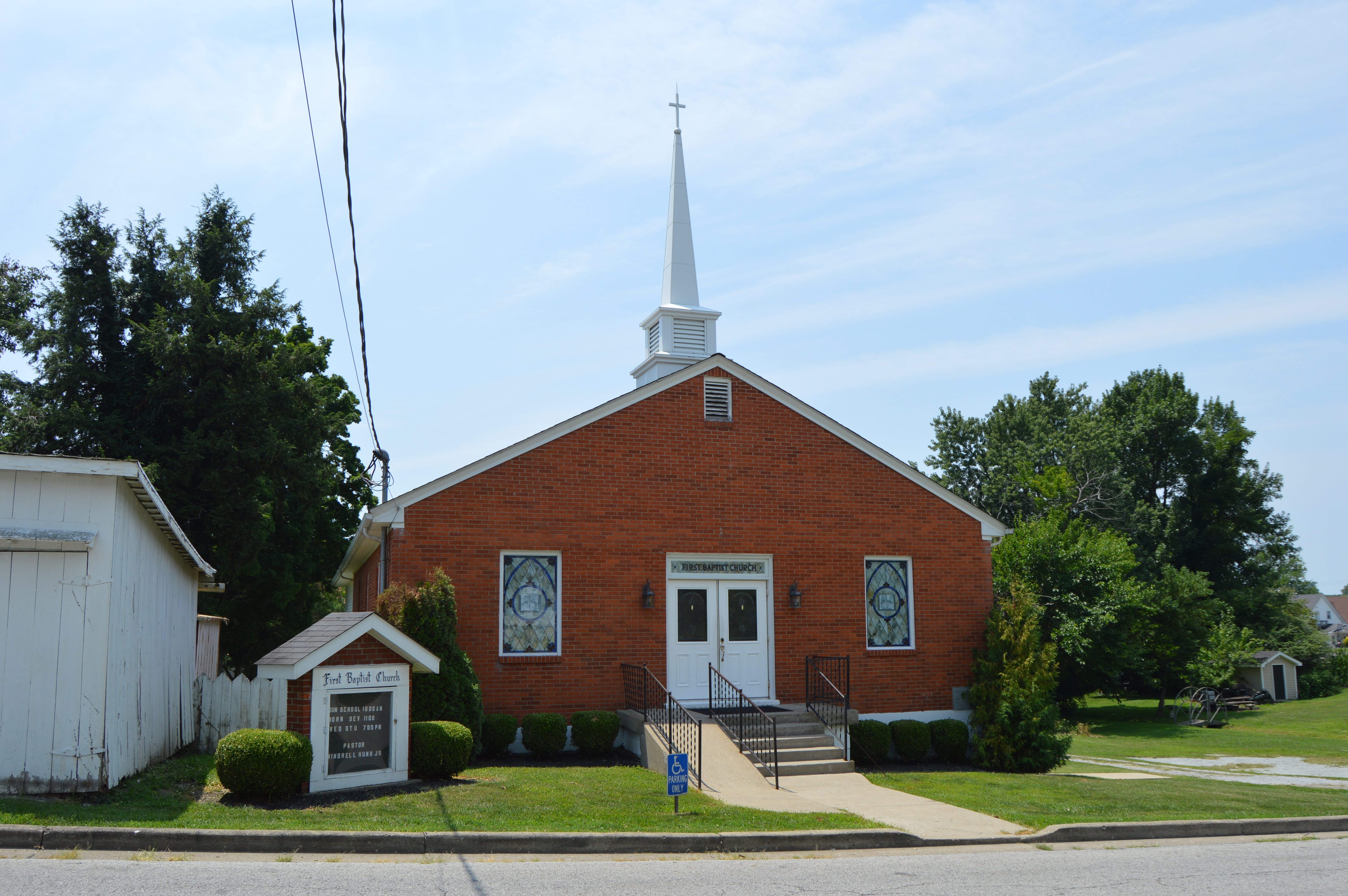 Front of the First Baptist Church of Springfield, located at 336 E. High Street in Springfield, Kentucky, United States. It occupies the site of the former Johnson's Chapel AME Church, which was built in 1872. Although it was listed on the National Register of Historic Places in 1989 and later destroyed, it has not yet been removed from the Register.